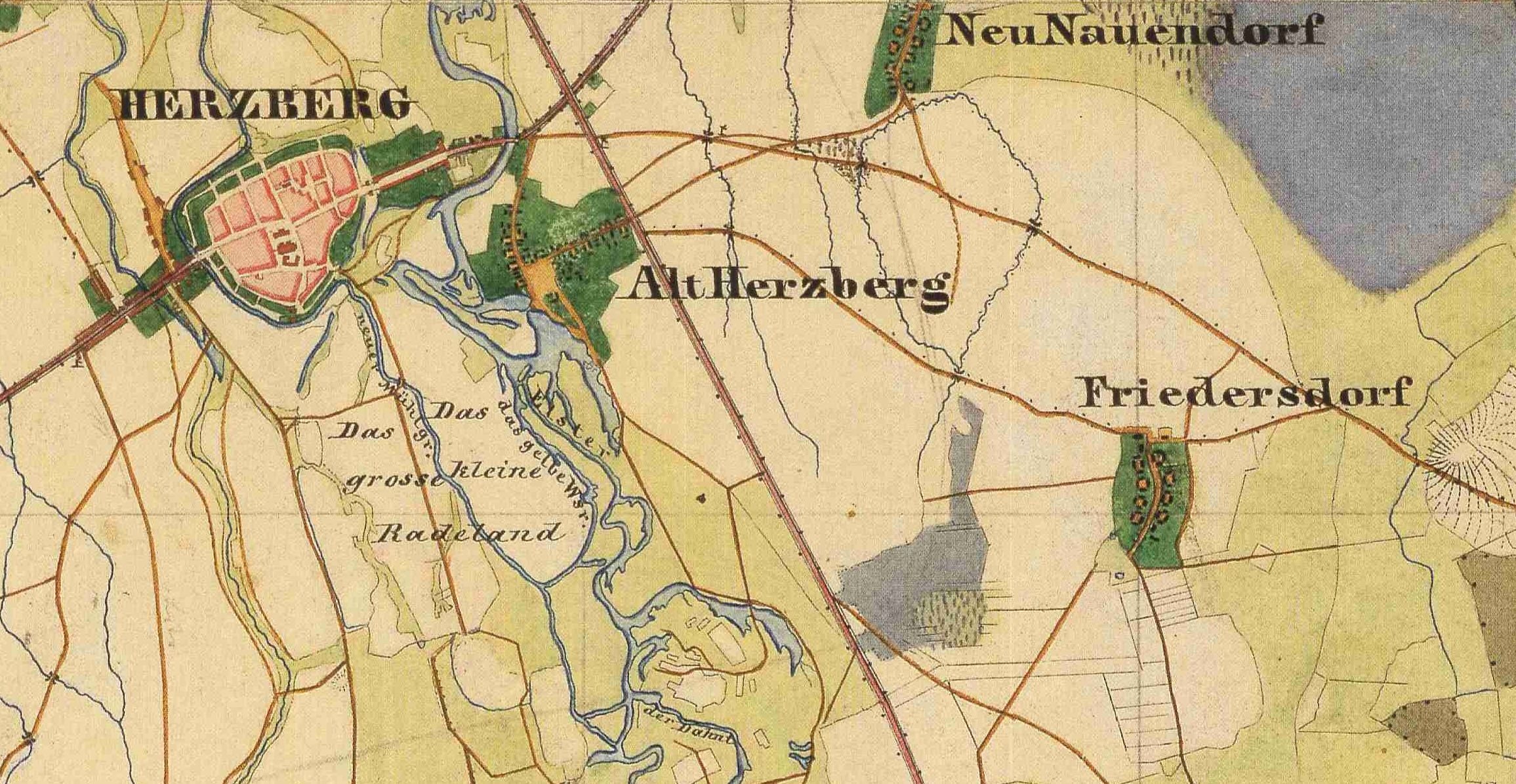 Herzberg (Elster), Lkr. Elbe-Elster, Brandenburg, Germany, detail from the Urmesstischblatt Sheet 4345 Herzberg, drawn in 1841